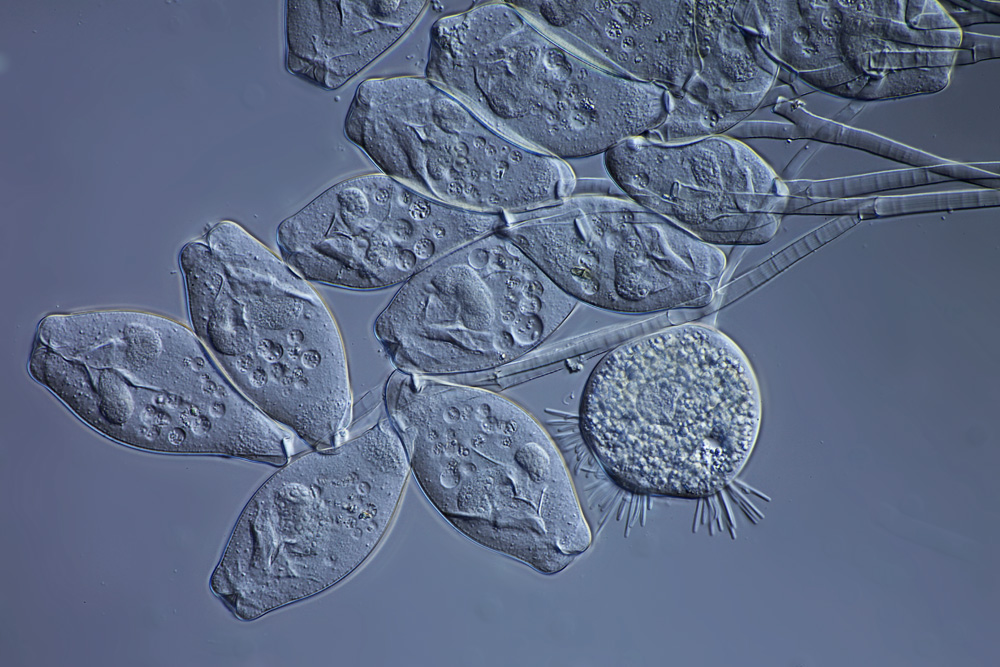 Inhabitants from activated sludge from a sewage treatment plant.